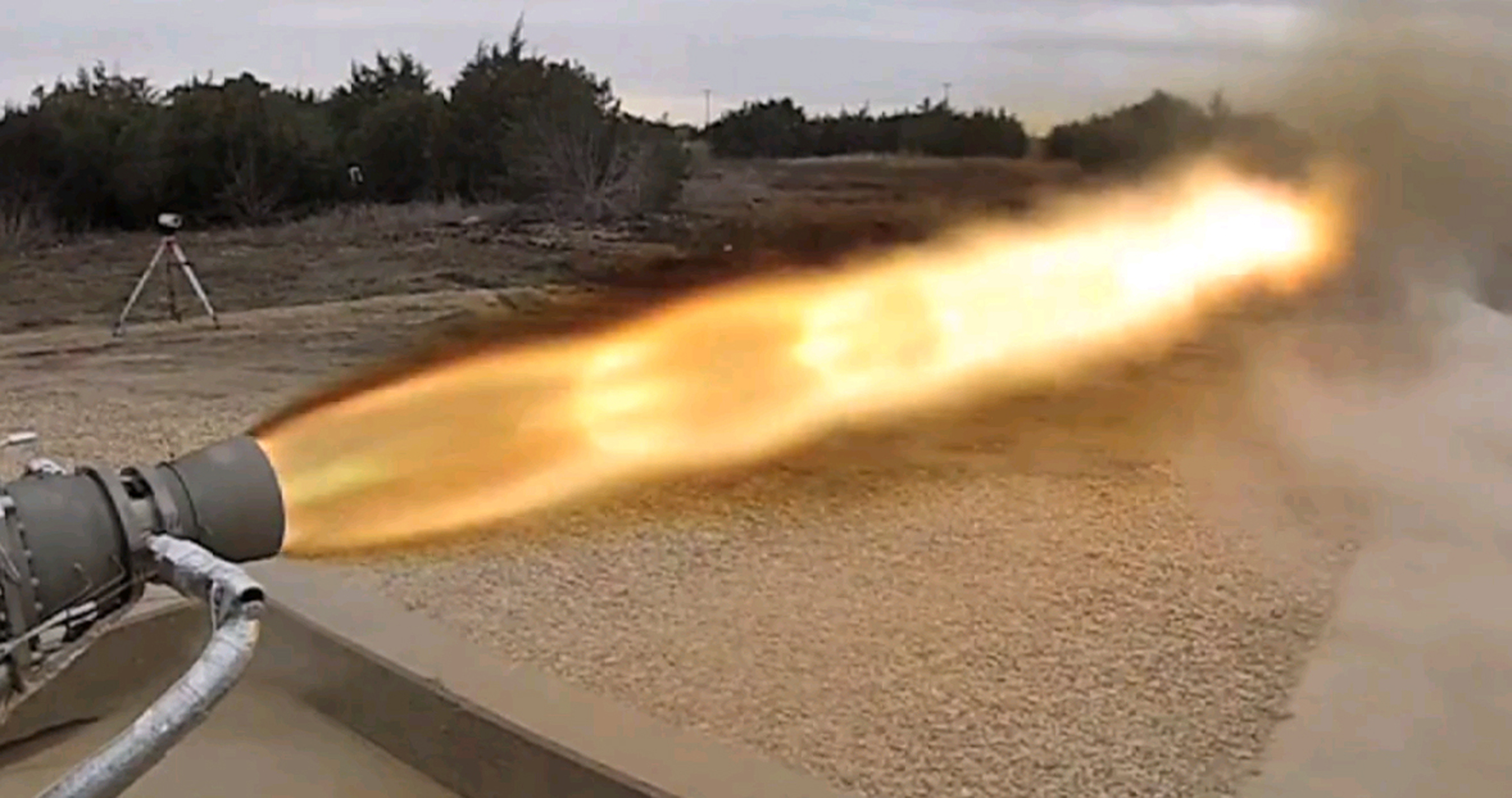 Space Exploration Technologies (SpaceX) completes a full-duration, full-thrust firing of its new SuperDraco engine prototype at the company’s Rocket Development Facility in McGregor, Texas. The firing was in preparation for the ninth milestone to be completed under SpaceX's funded Space Act Agreement (SAA) with NASA's Commercial Crew Program (CCP). SpaceX is working with CCP during Commercial Crew Development Round 2 (CCDev2) in order to mature the design and development of its Dragon spacecraft with the overall goal of accelerating a United States-led capability to the International Space Station. Eight SuperDracos would be built into the sidewalls of the Dragon capsule to carry astronauts to safety should an emergency occur during launch or ascent. The goal of CCP is to drive down the cost of space travel as well as open up space to more people than ever before by balancing industry’s own innovative capabilities with NASA's 50 years of human spaceflight experience. Six other aerospace companies also are maturing launch vehicle and spacecraft designs under CCDev2, including Alliant Techsystems Inc. (ATK), Blue Origin, The Boeing Co., Excalibur Almaz Inc., Sierra Nevada Corp. and United Launch Alliance (ULA). For more information, visit